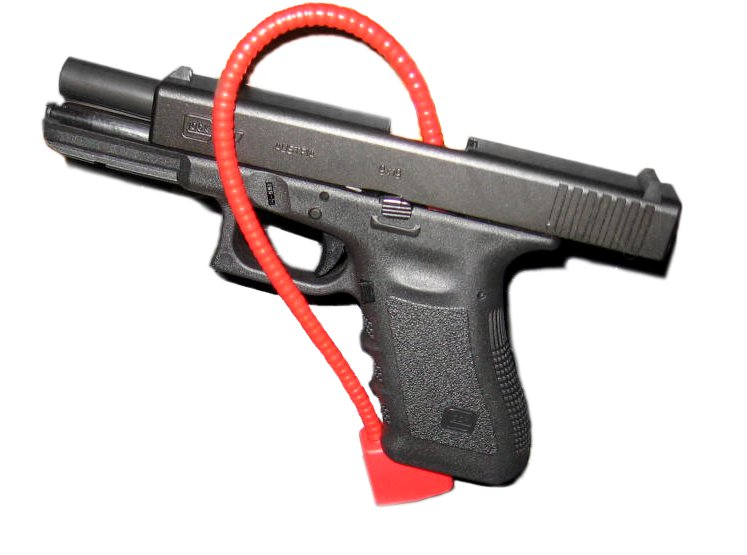 A third-generation 9mm Glock 17 with a cable lock.